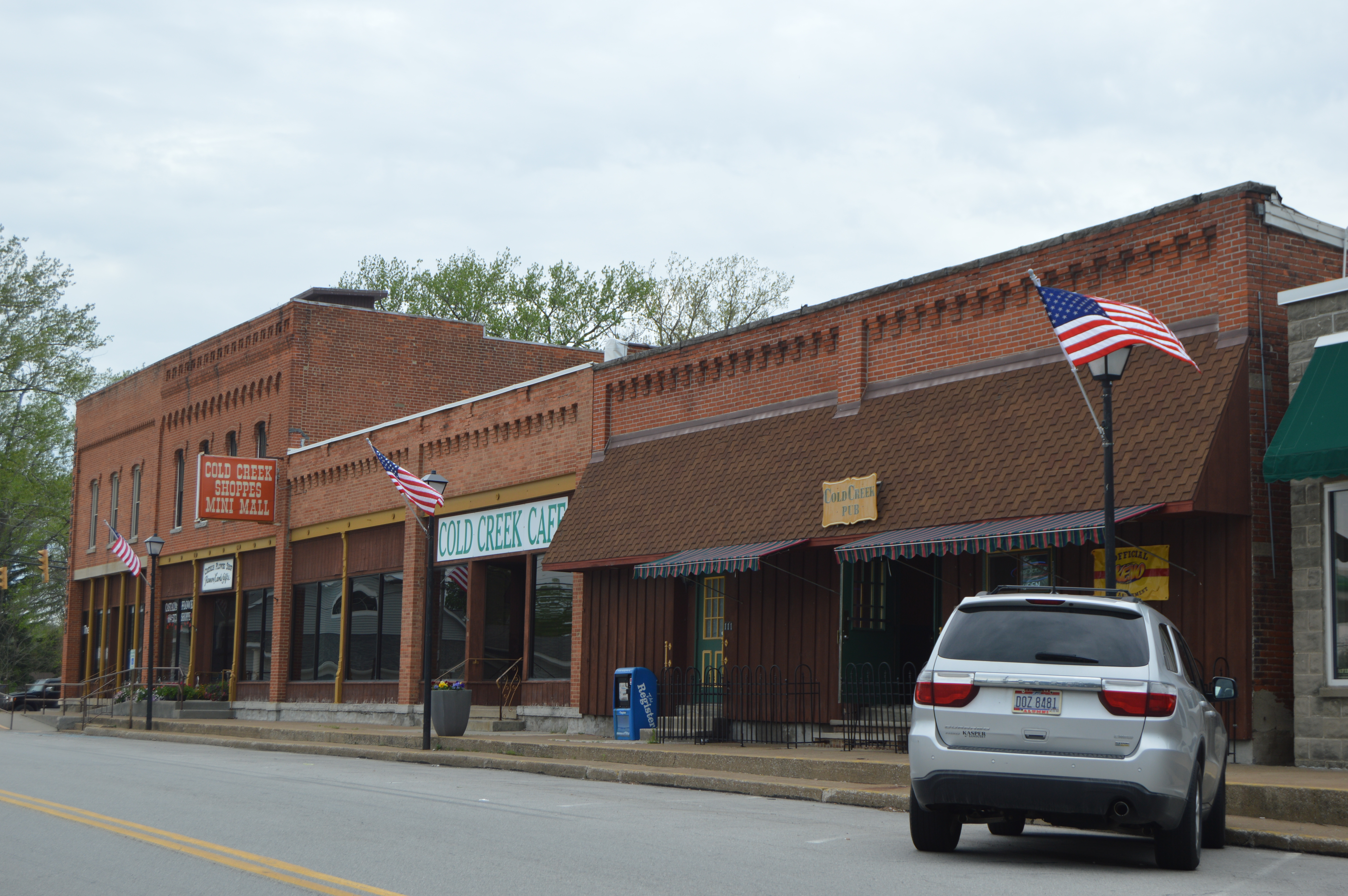 Buildings on the northern side of Main Street (State Route 101) immediately east of its junction with Washington Street in central Castalia, Ohio, United States.